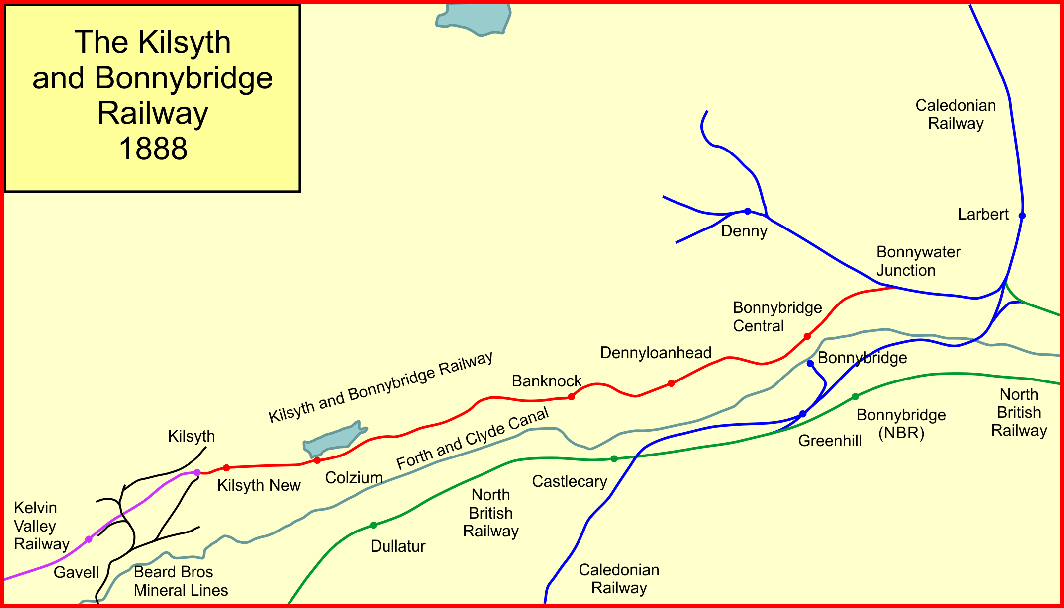 System map of the Kilsyth and Bonnybridge Railway, Scotland, 1888